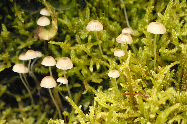 Mycena epipterygia from Commanster, Belgium. The determination of the species shown in this picture has been verified.